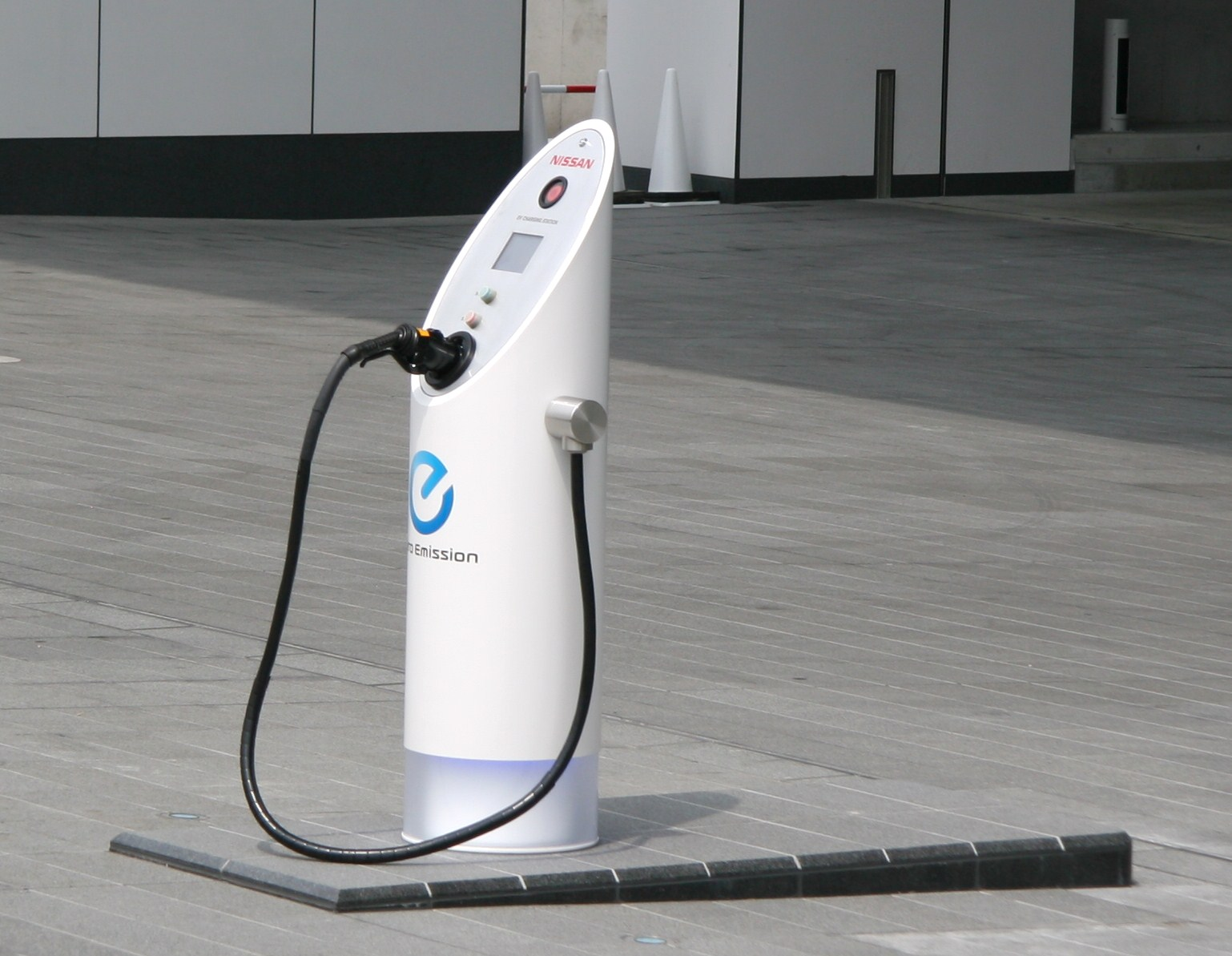 EV Station